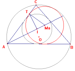 Construction of a mixitilinear incircle